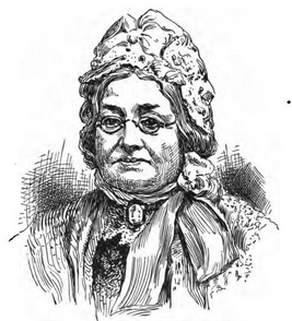 Mrs. R. B. Lyth (former Mary Ann Hardy), South Sea Missionary; from an 1898 publication. From a photograph by Mr. W. Eskett, photographer, Lendal, York.